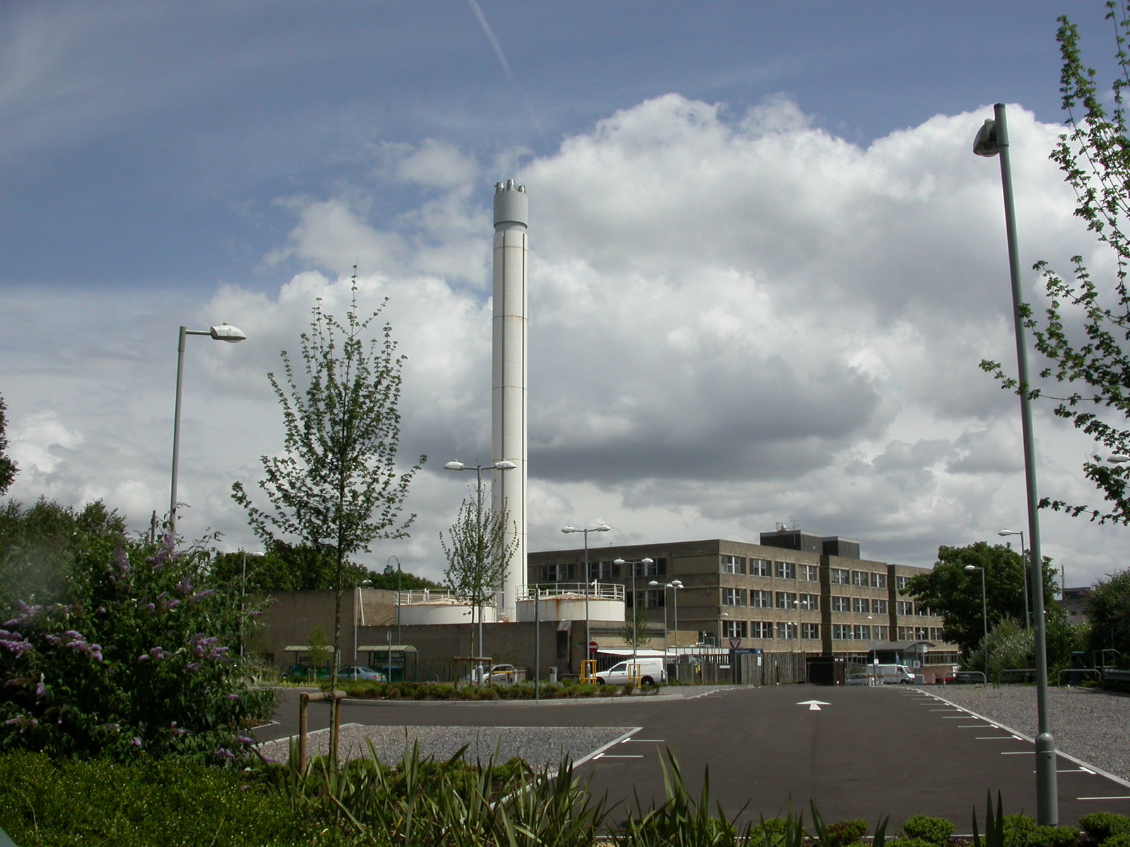 Royal South Hants Hospital, as seen from Six Dials.